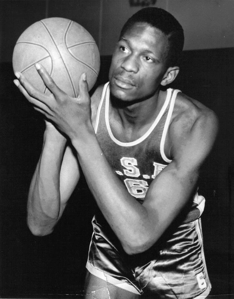 Former Boston Celtics player Bill Russell during his time at the USF